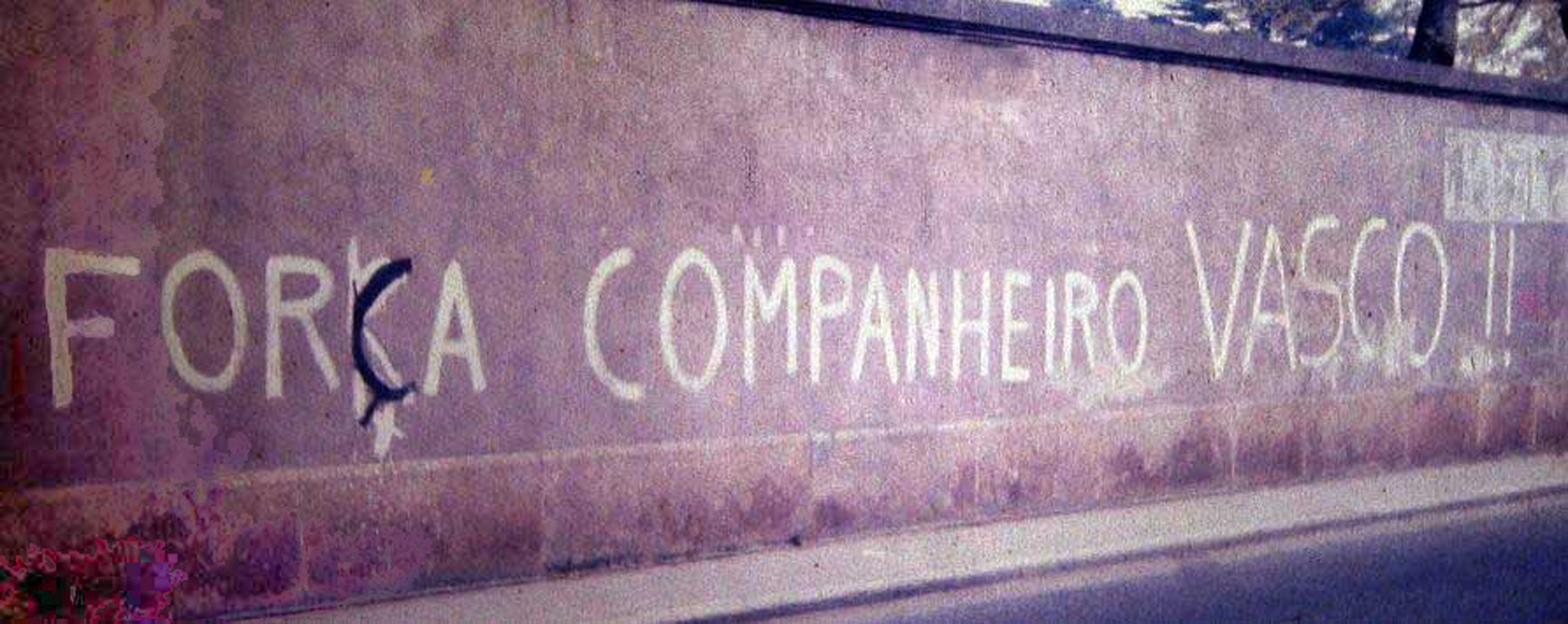 1975 Force companion Vasco